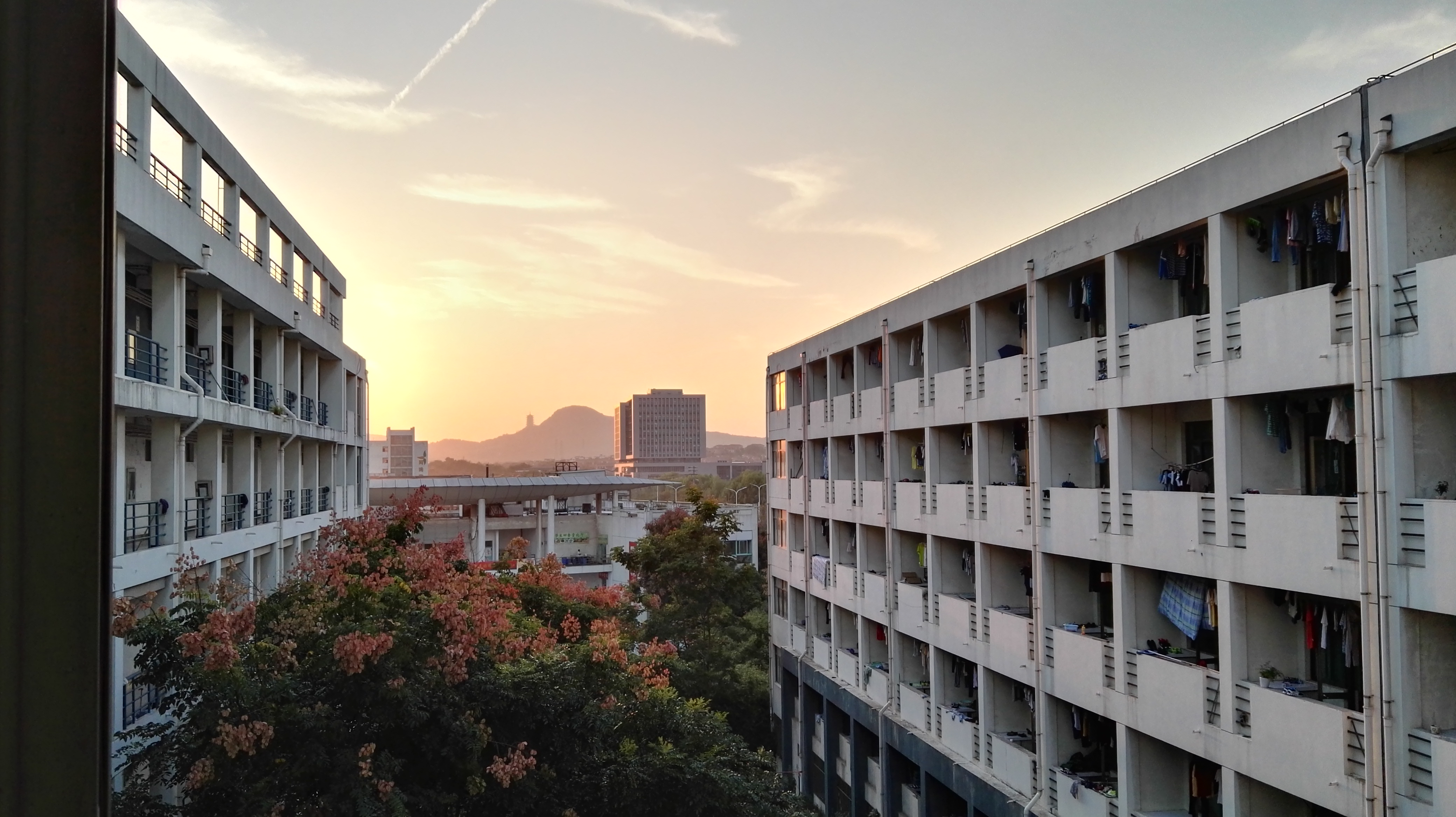 Dorm Building in HU